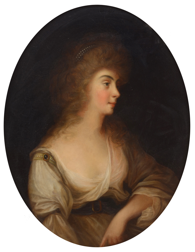 Princess Louise of Hesse-Darmstadt (1761–1829), Grand Duchess of Hesse and by Rhein